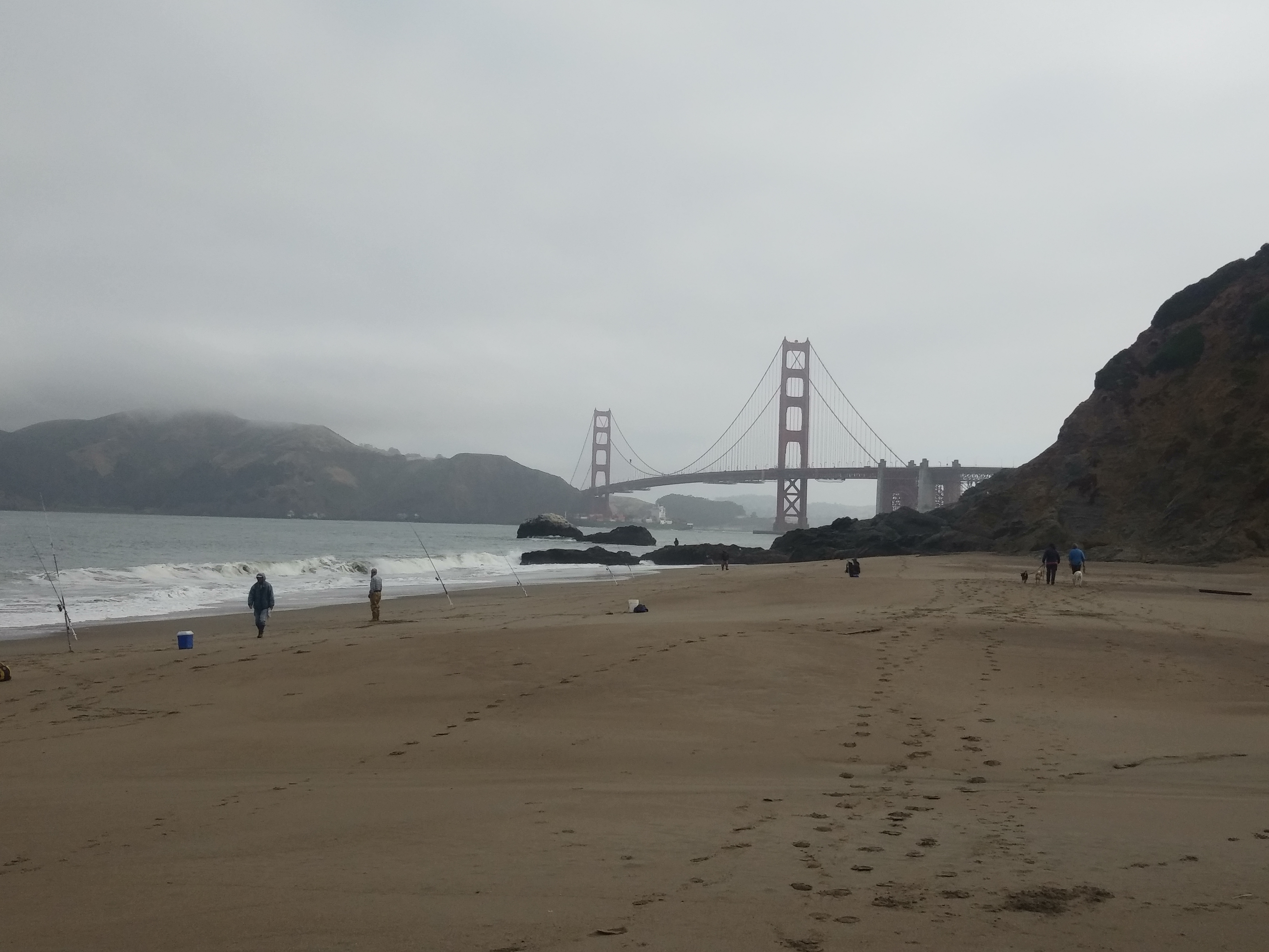 Baker Beach with Golden Gate Bridge, ships, fisherman, and beachgoers on a June morning 2019